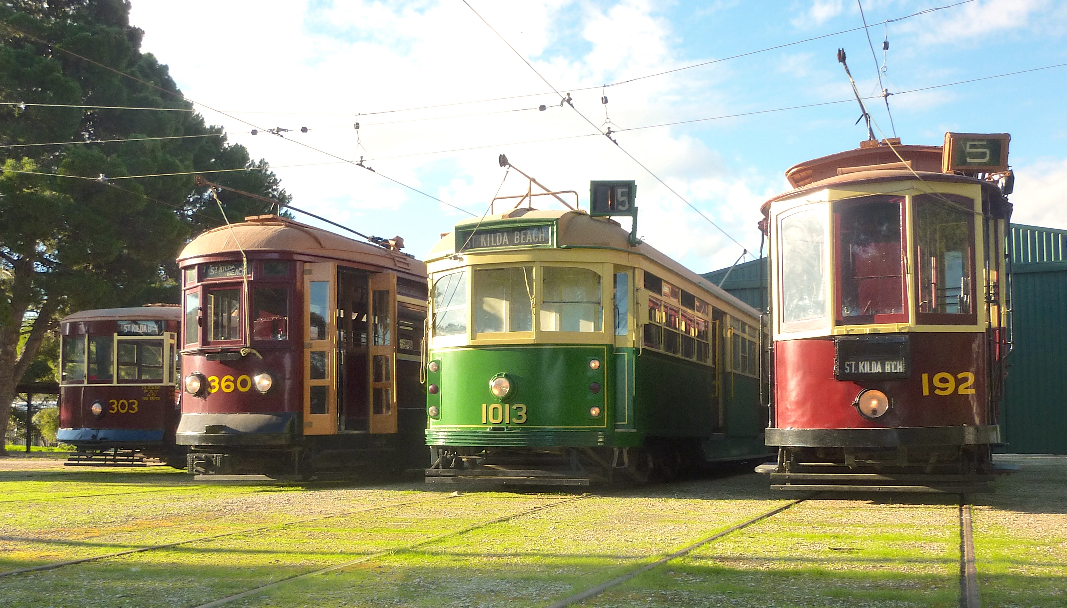 Four restored trams in the large collection of the Tram Museum, St Kilda -- numbers 303, 360, 1013 and 192 -- stand after running during the afternoon on 10 June 2013. 1013 is a Melbourne tram; the others are Adelaide trams.